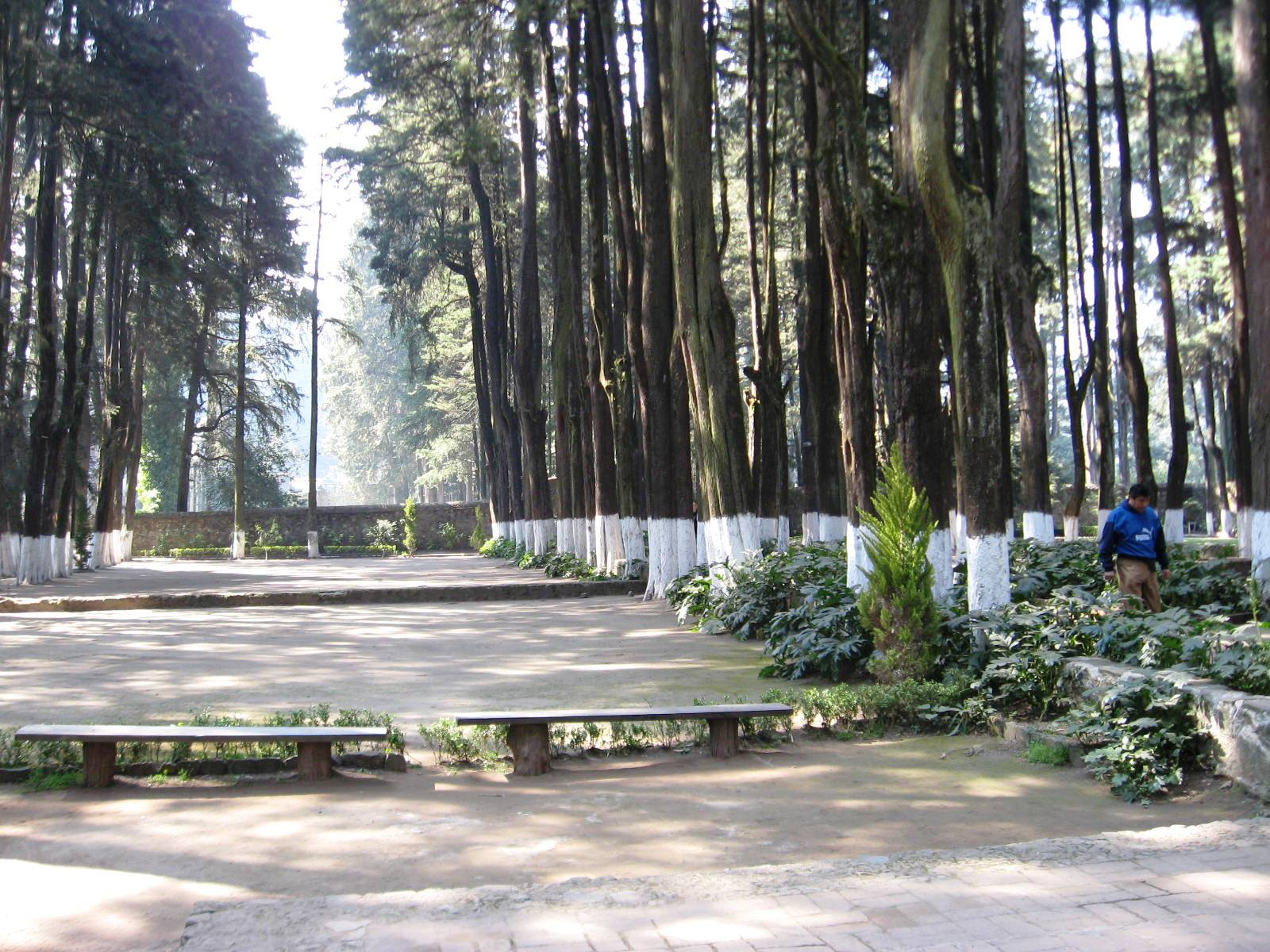 Front courtyard and garden, of the former Convent of Desierto de los Leones. The empty areas indicate part of where the original 17th century monastery was. In Desierto de los Leones National Park, in western México, D. F.